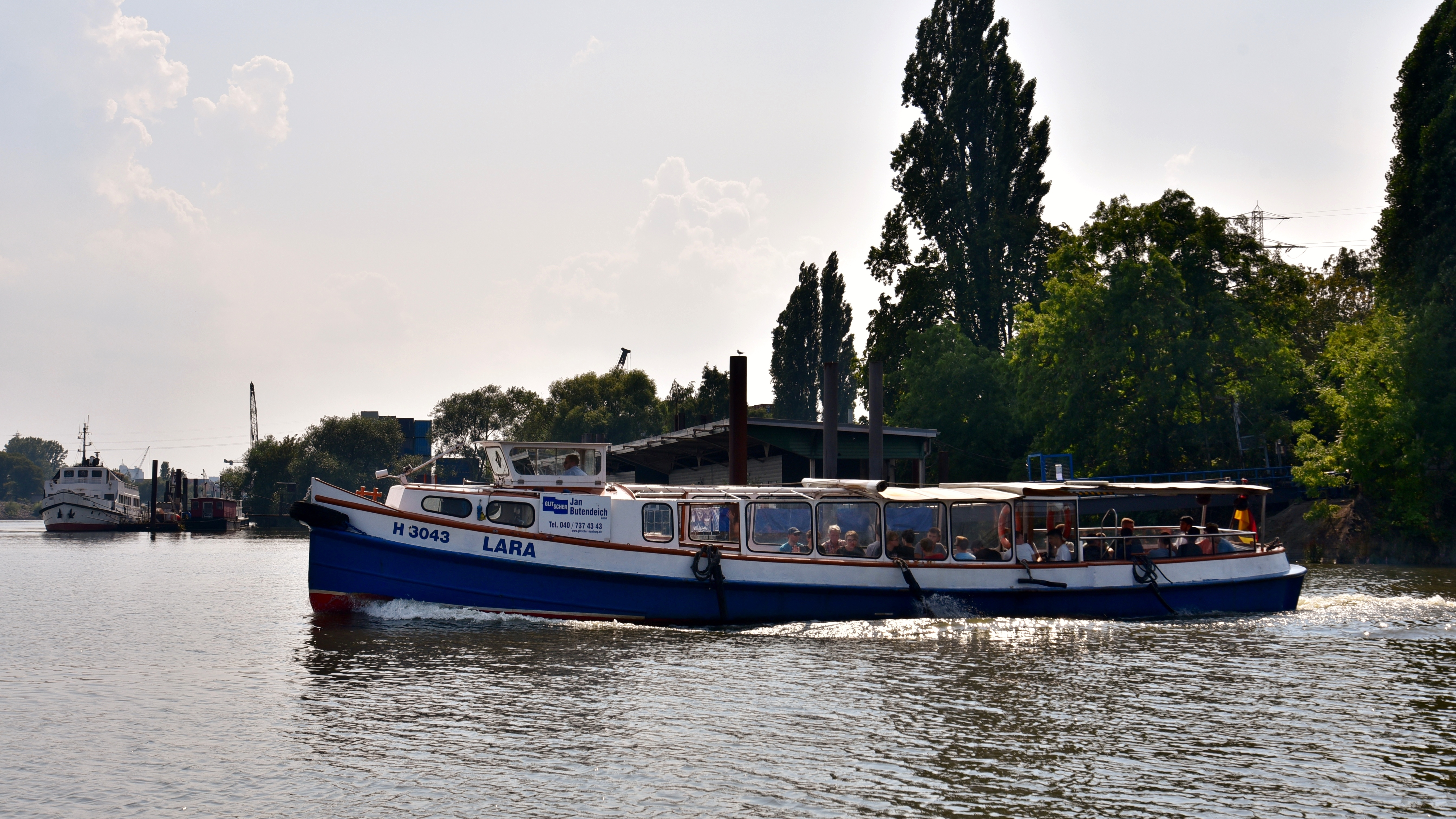 Tour boat Lara operating a harbour tour in the port of Hamburg